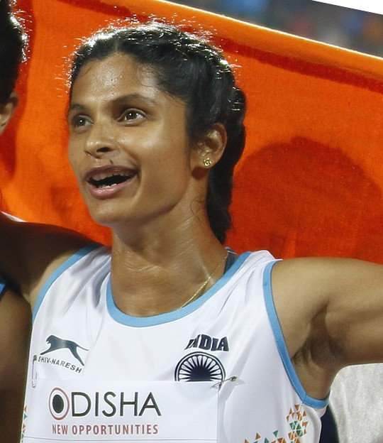 Dutee Chand, Srabani Nanda, Himashree Roy And Merlin Joseph(Bronze Medalist For India) from the 22nd Asian Games in Odisha. 2017 Asian Athletics Championships. 6 to 9 July 2017 at the Kalinga Stadium in Bhubaneswar